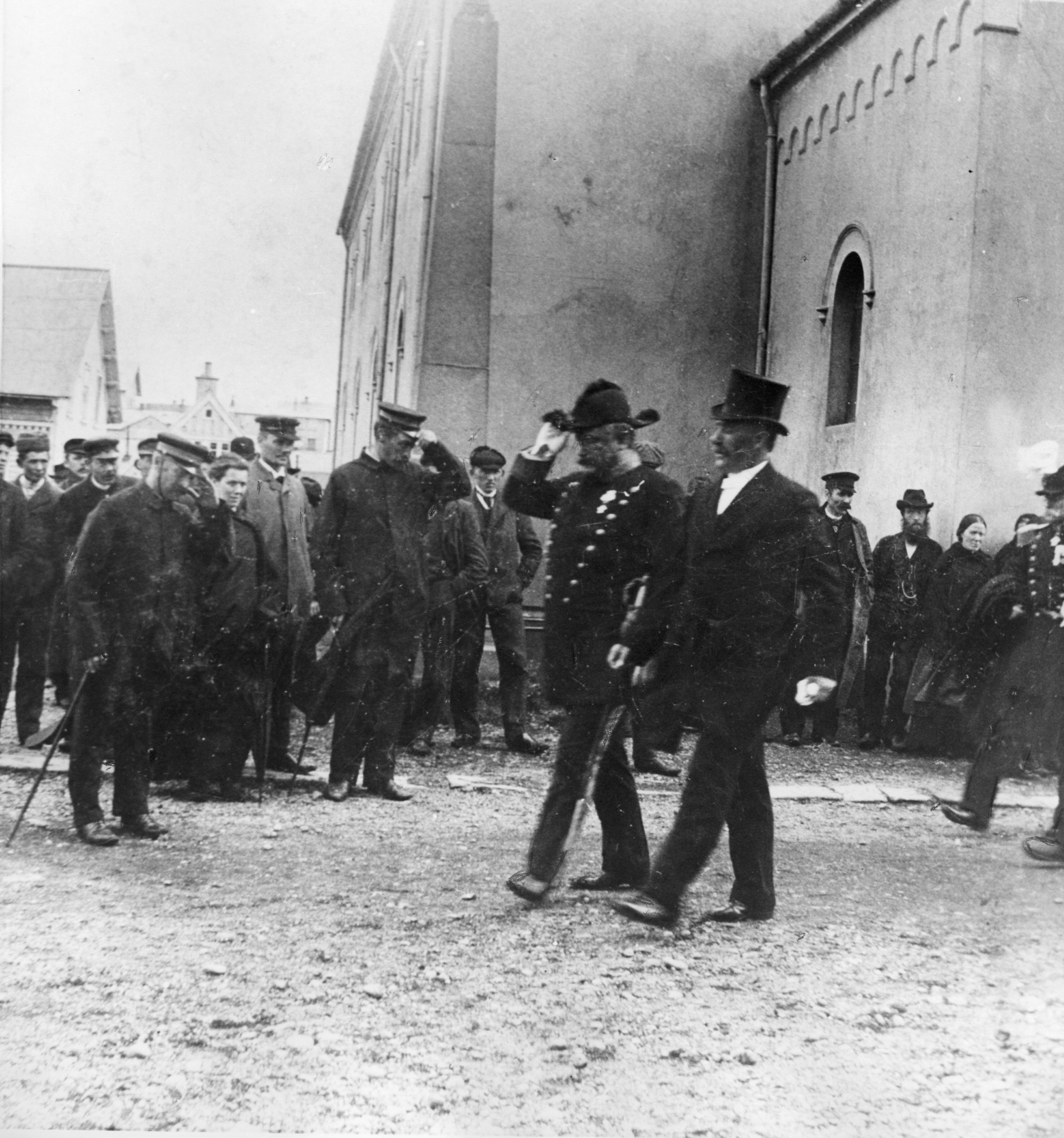 Date unknown, sometime between 1904 and 1908. Parliamentary initiation ceremony in Reykjavík, Iceland. Visible are Hannes Hafstein the first minister of Iceland, rev.. Árni Jónsson from Skútustaðir, Júlíus Havsteen and Lárus Bjarnason. Hannes is dressed in official attire and greets the public. The cathedral (Dómkirkjan) is in the background.